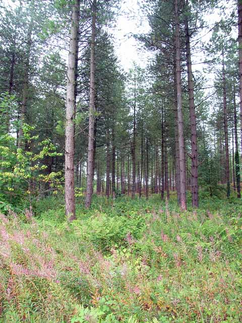 Corsican pines in Newborough Forest. Newborough Warren was planted mostly by Corsican pines over the period 1947-65.